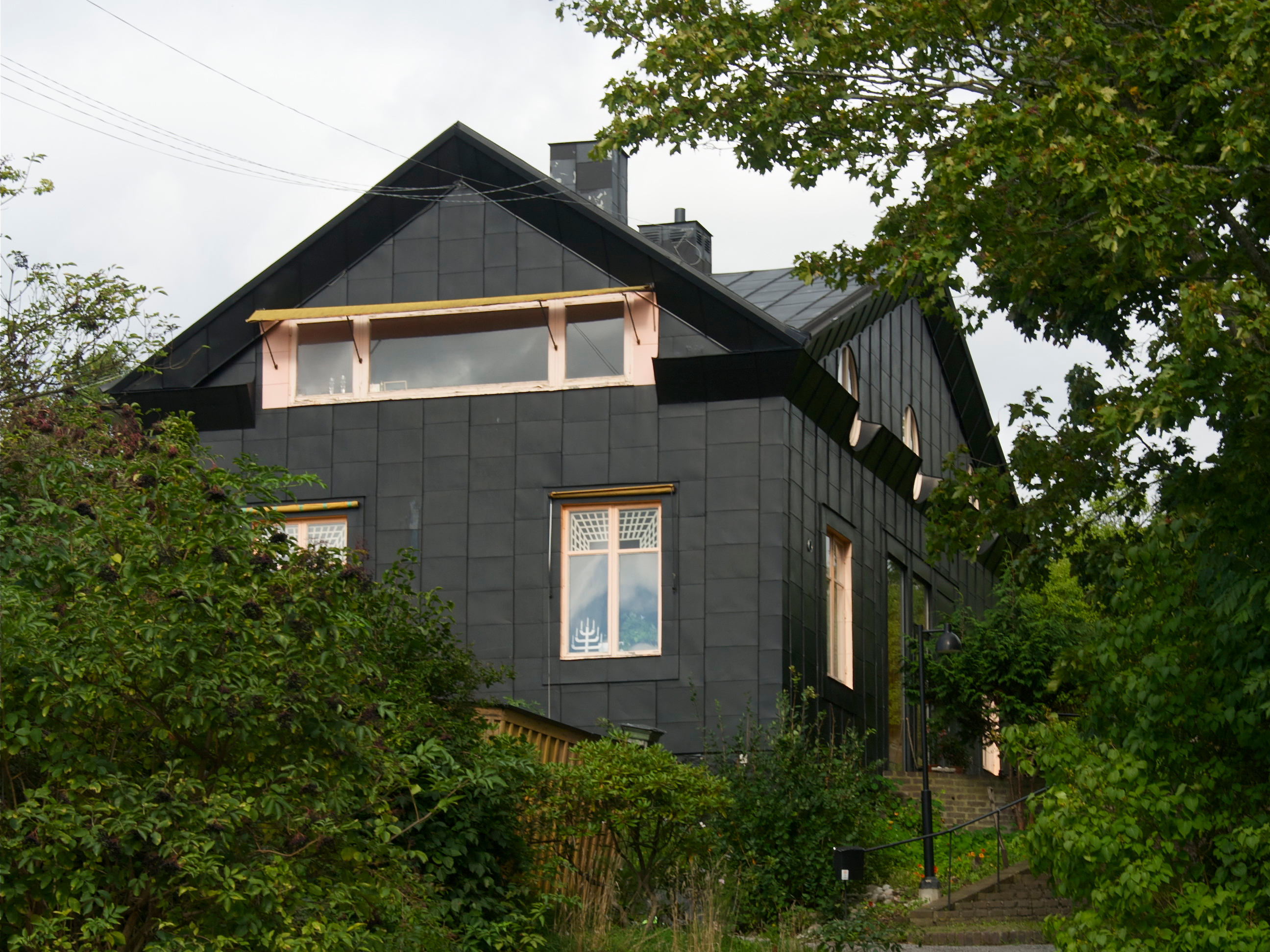 Villa Klockberga